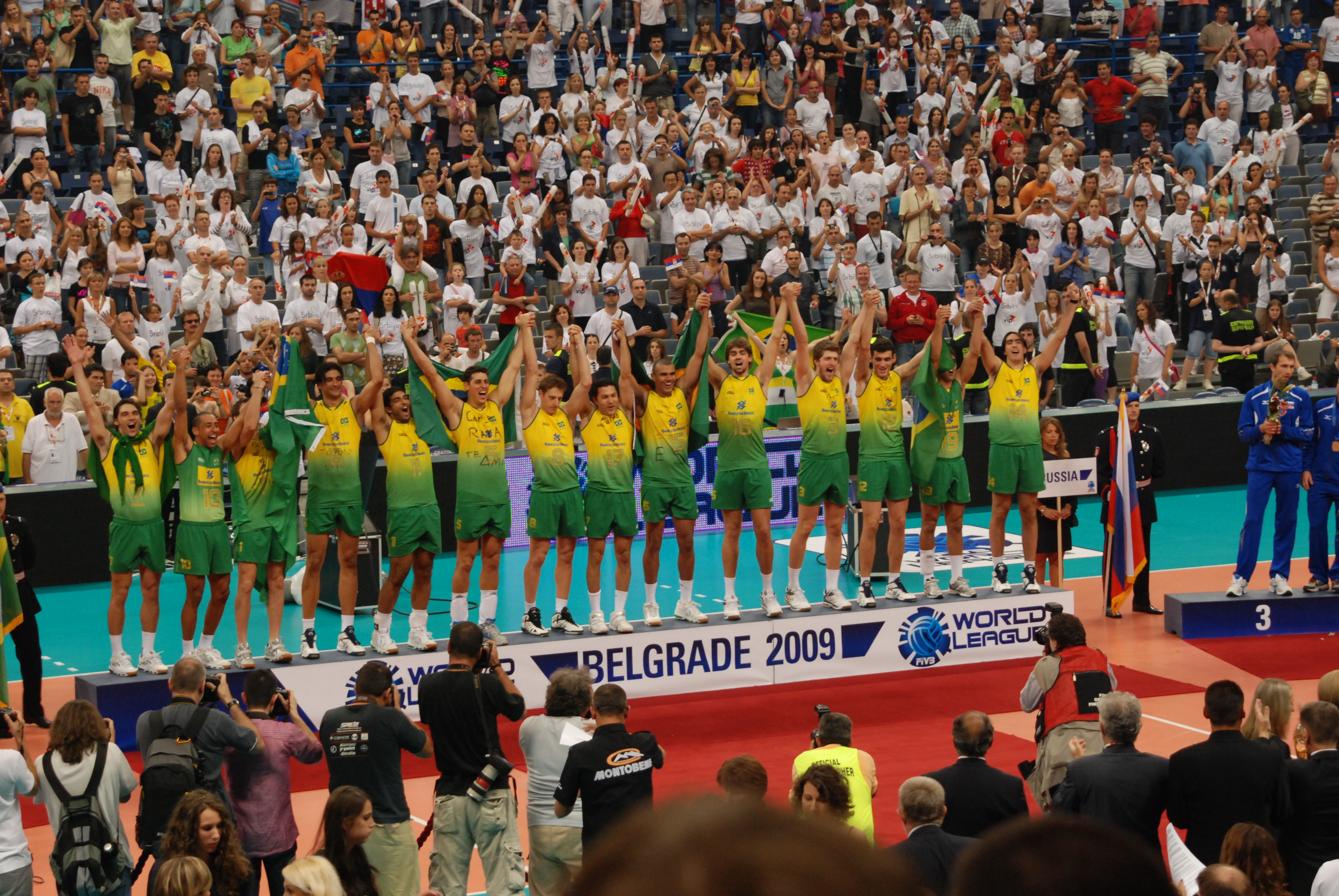 Brazil is the 2009 World League Champion. In a packed Beogradska Arena (22,680 spectators is the record for a sporting event at the venue) Brazil beat Serbia in a thrilling 3-2 match (22-25, 25-23, 25-22, 23-25, 15-12) on Sunday. It is Brazil?s eighth World League title, while Serbia won their fourth silver medal, second in a row. Cuba surrendered to Russia in the bronze medal match, Daniele Bagnoli?s team winning easily 3-0 (25-13, 26-24, 25-16) to earn their 12th World League medal. Brazilian libero Sergio won the 30,000 USD prize as MVP of the final.